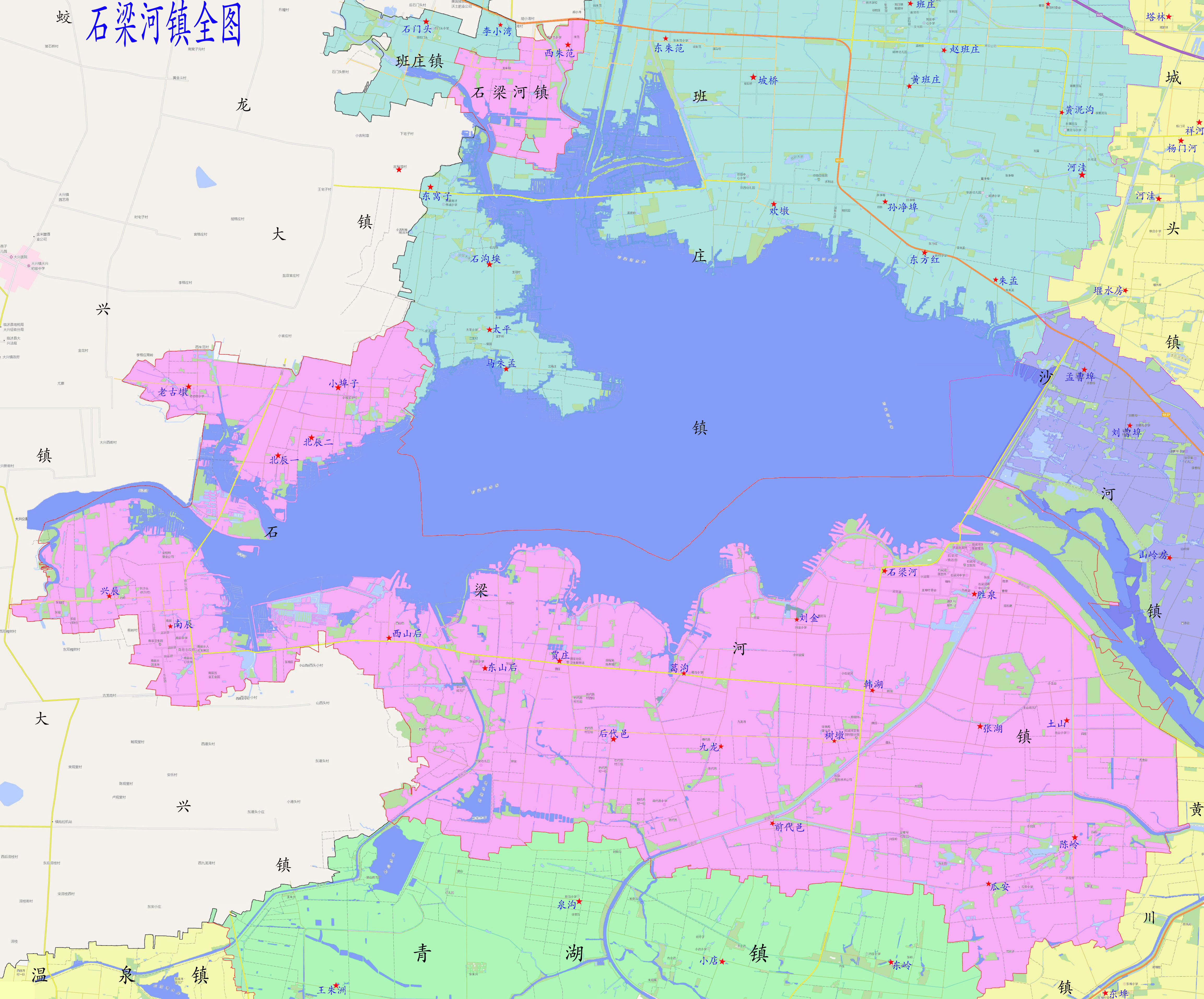 Map of Shilianghe Town